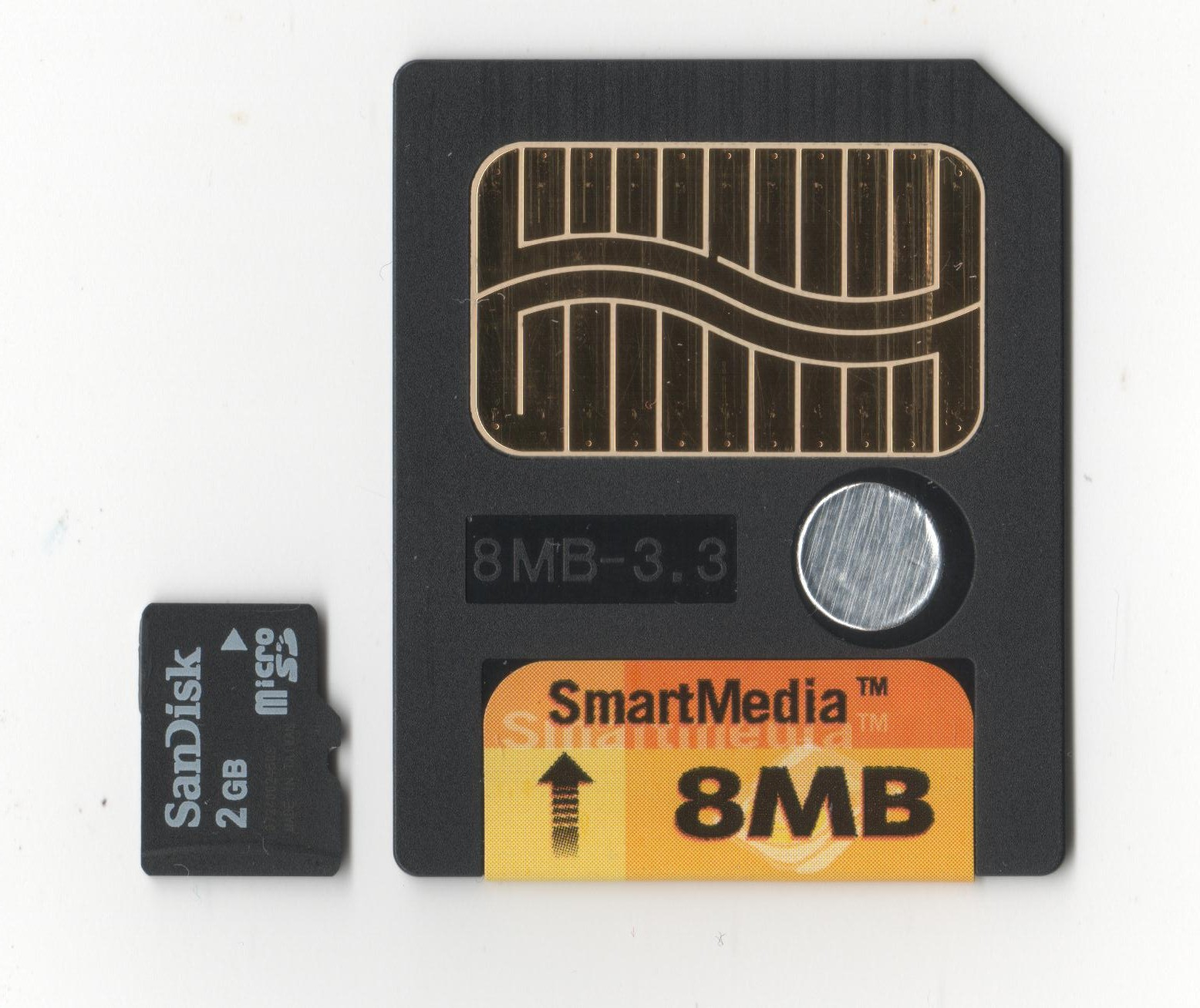 A high resolution photo of an 8 Megabyte SmartMedia Card and a 2GB MicroSD Card for comparison.